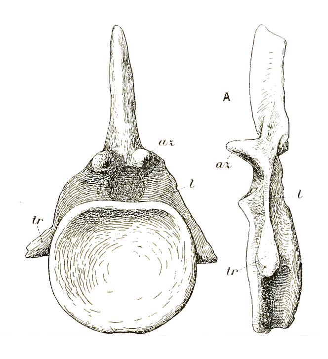 Cetiosaurus leedsi - Anterior caudal vertebra; anterior and (A) left lateral aspects. az. prezygapophyses; l. broken lateral flange of bone; tr. transverse process, incomplete. About 1/8 nat. size.